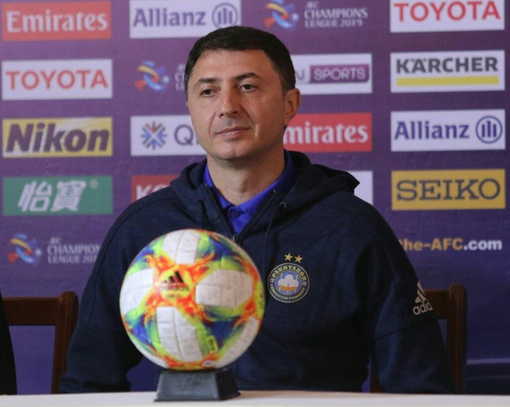 Georgian former footballer, current coach Shota Arveladze in FC Pakhtakor in March 2019